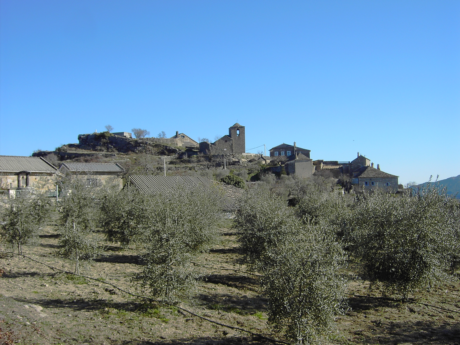 Eripol in the municipalty of Barcabo, Huesca, Spain.